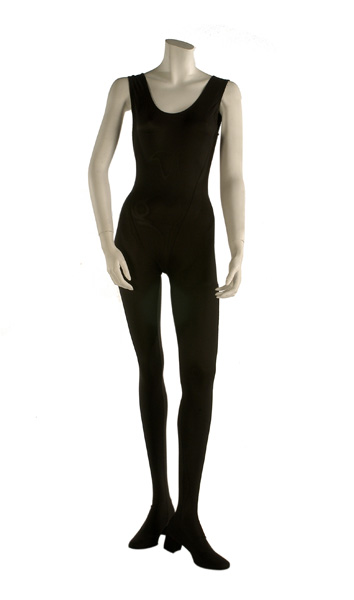 Black polyester jumpsuit with integrated shoes.